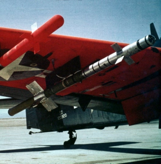 The "Heat-Homing Rocket" at Naval Ordnance Test Station Inyokern, in 1952. The developmental Sidewinders is mounted for a test flight on a Douglas AD-4 Skyraider (BuNo 123920).